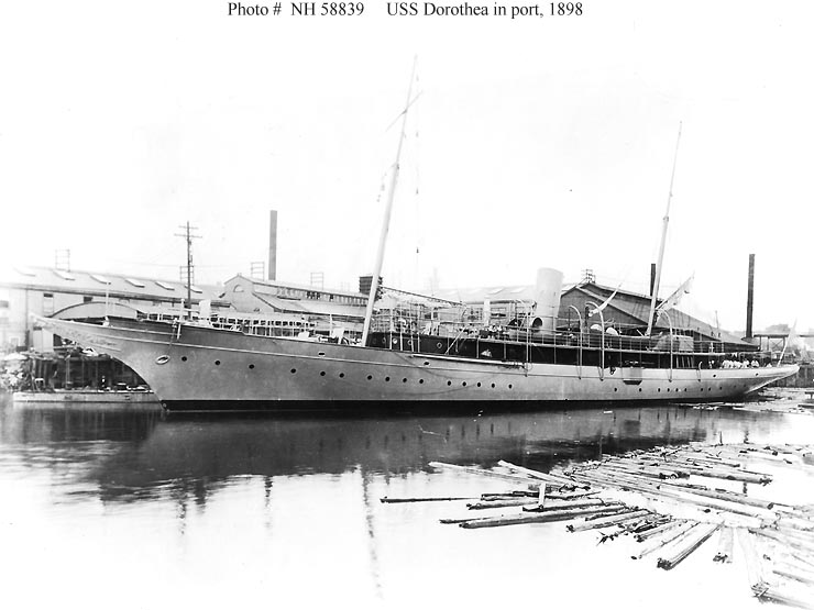 USS Dorothea (1898-1919) In port, 1898.